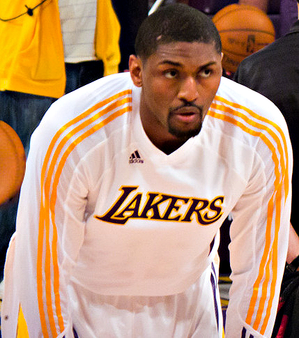 Lakers vs Heat, Christmas Day, 2010.